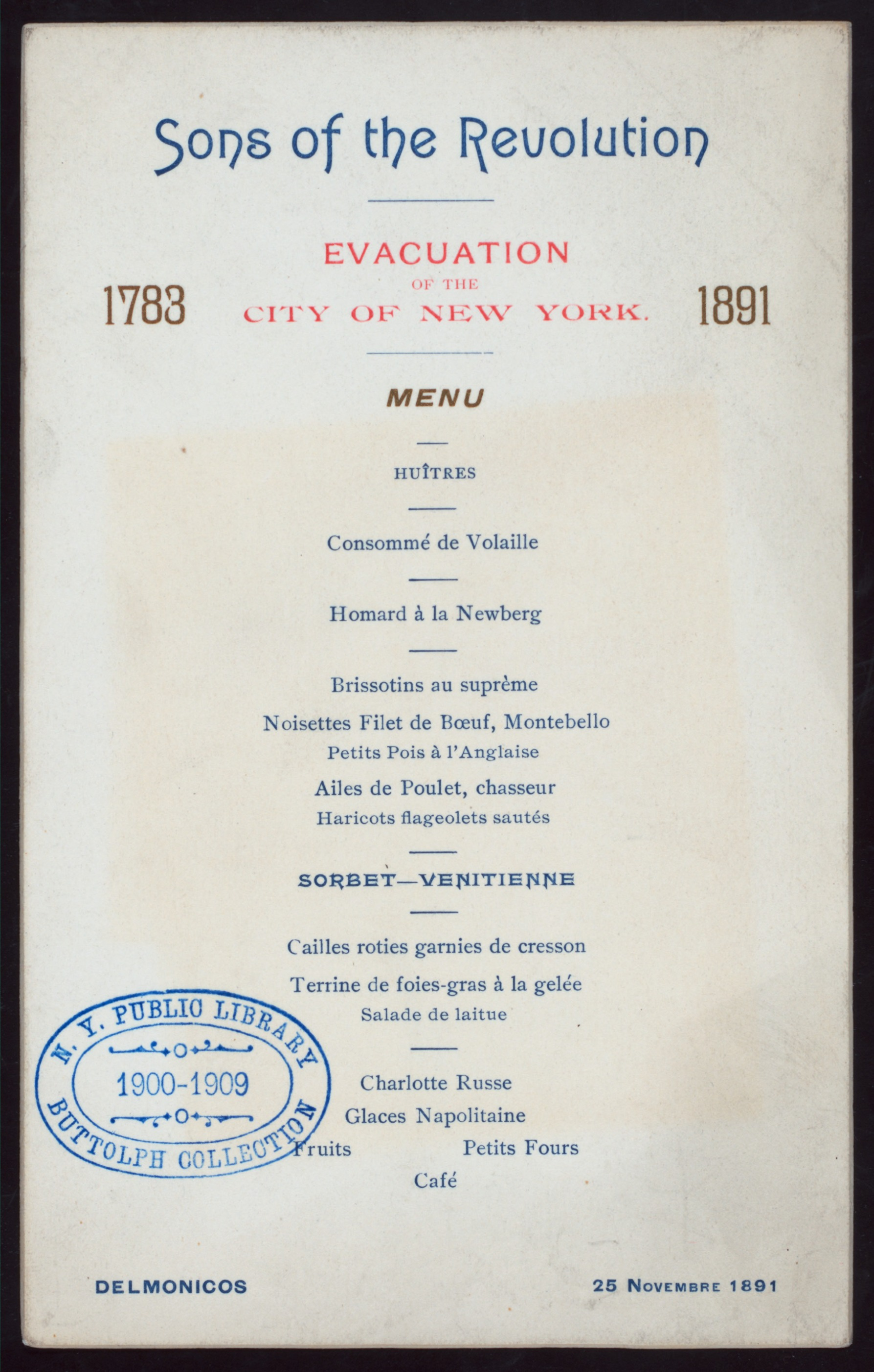 "FRENCH MENU; COMPLETE VERSES OF THE SONGS AMERICA AND COLUMBIA, THE GEM OF THE OCEAN PRINTED ON THE BACK COVER"